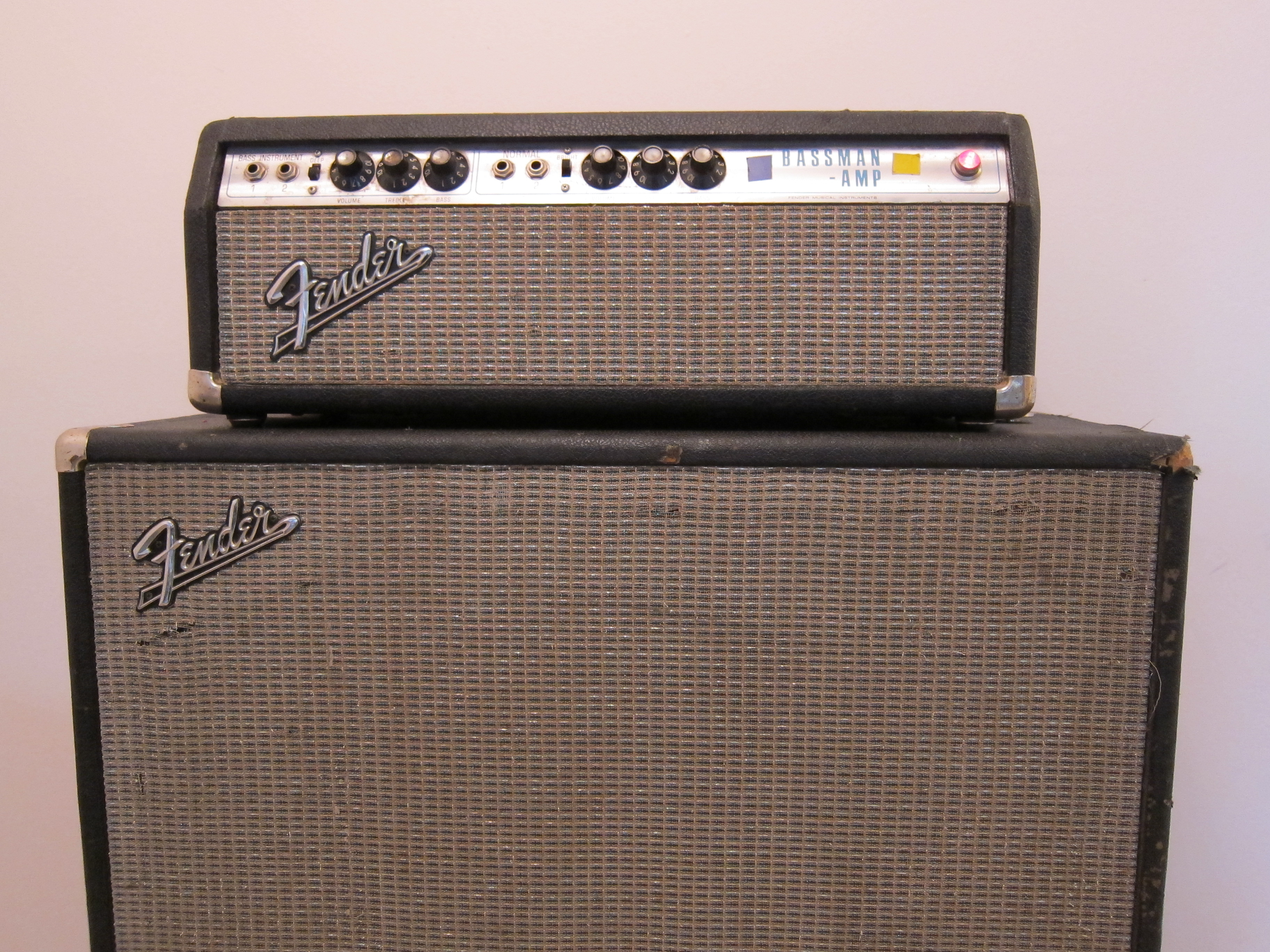 Head unit (AB165) and monitor speaker case for a Fender V.L. Bassman 15 inch guitar amplifier